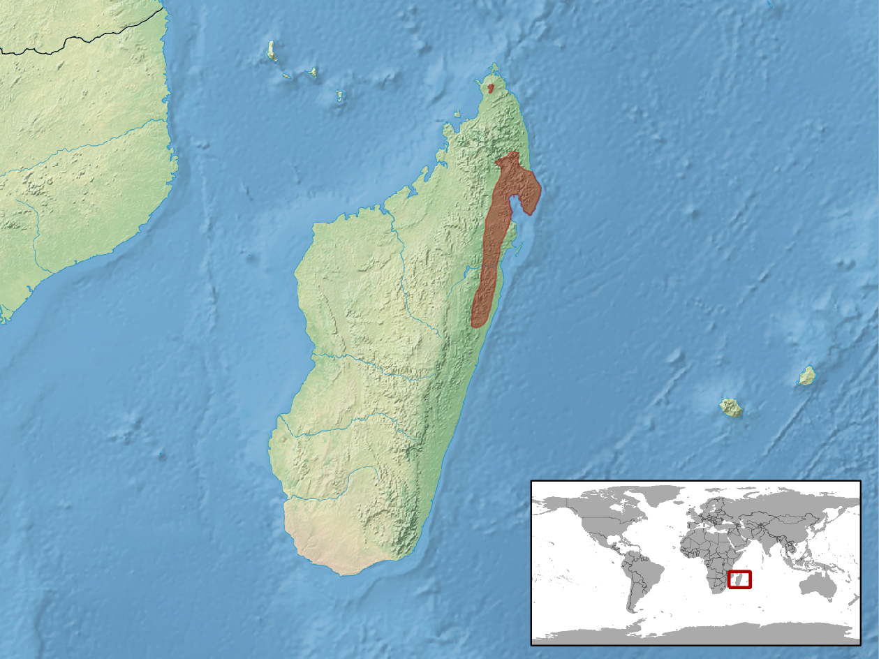 geographic distribution of Paroedura gracilis (Native: Madagascar)